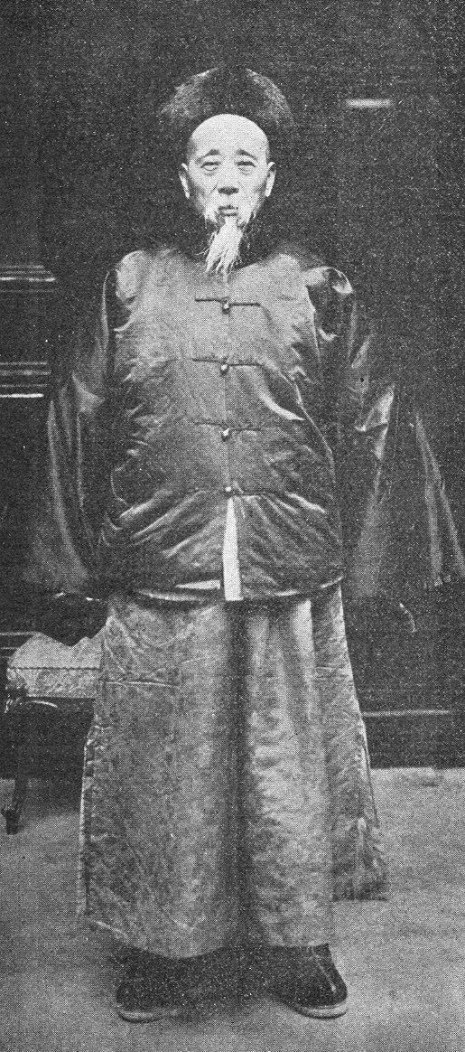 Picture of Chou Fu #pinyin: Zhou fu# Viceroy of the Liang Kiang, Qing Dynasty China